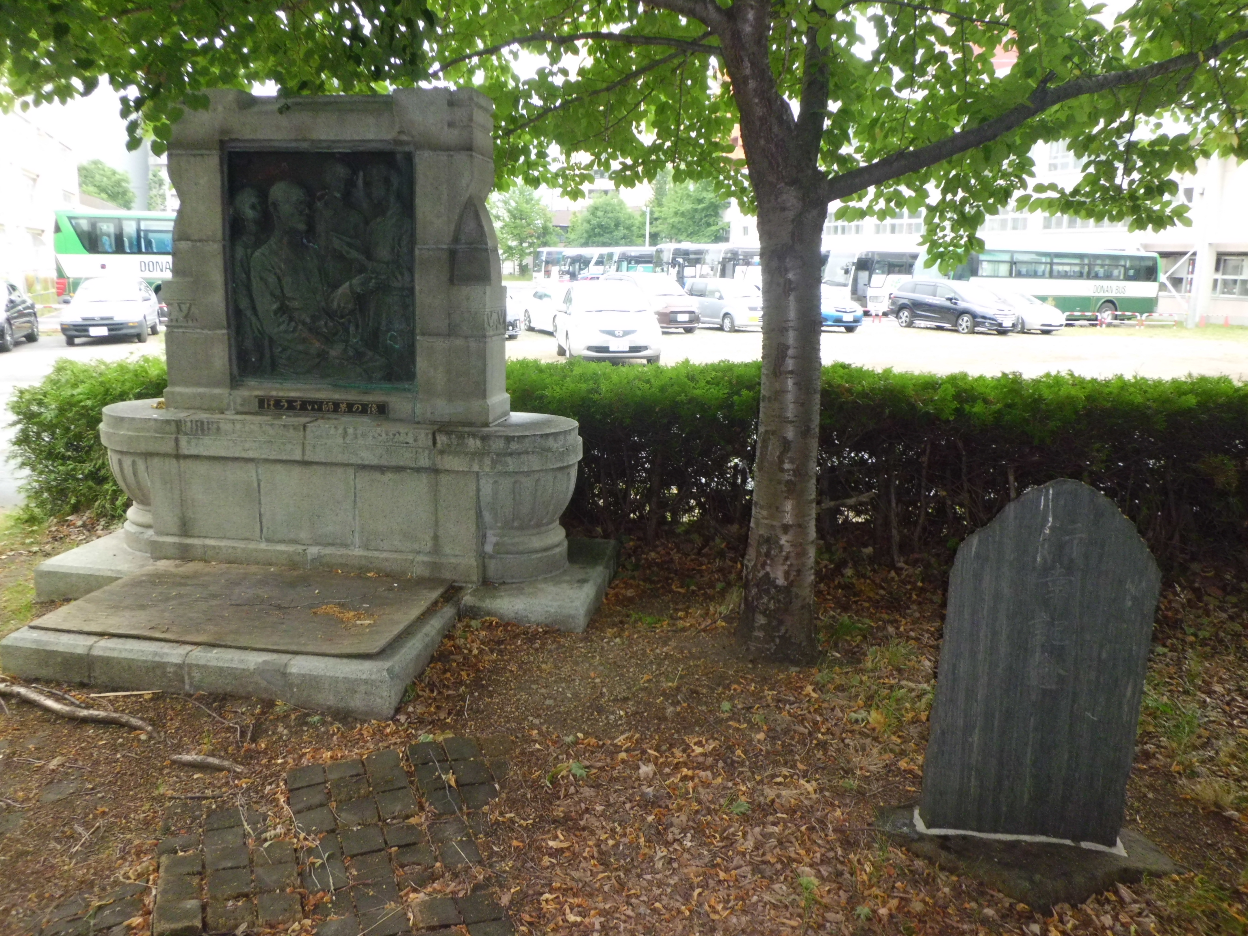 Monument to Teacher and Children of Hosui